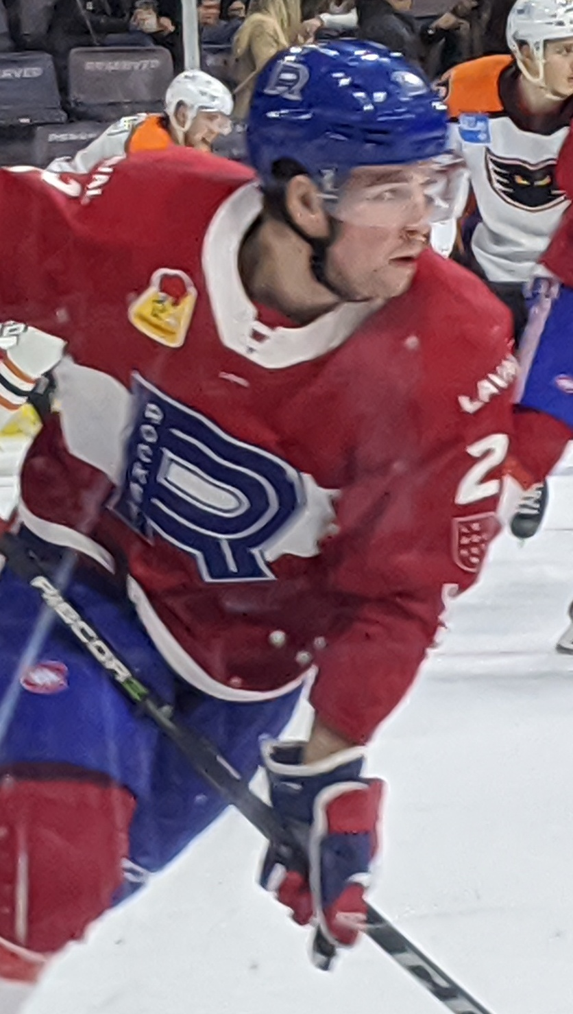 Defenseman Evan McEneny of the Laval Rocket ice hockey team, at the PPL Center in Allentown, Pennsylvania, on January 11, 2020.